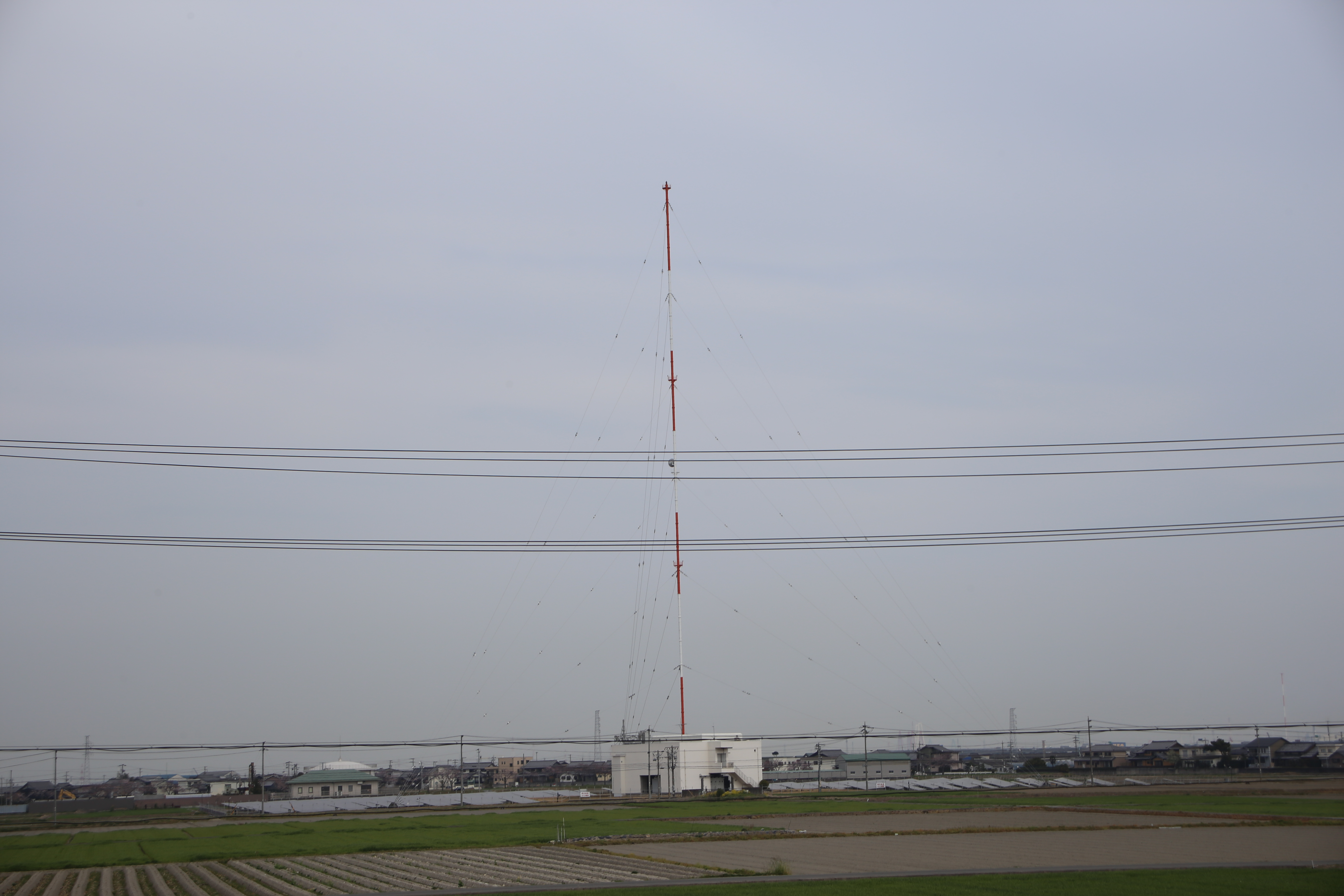 CBC Radio Nagashima Transmitting Station (JOAR 1053kHz 50kW)